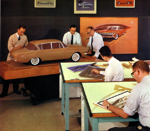 Image is of a photograph showing automobile designers at work. Standing by the scale model's left front fender is Richard A. Teague, a famous automobile designer at American Motors (AMC). Scan of AMC public relations brochure - for publicity of the executives in the company. The image was freely provided to promote a the company and illustrate people working to design automobiles with the intention that it be distributed for "free" by the media to the public. In case the provenance of the above release ever comes into question, a fair use claim is made based on the rationale of critical commentary in articles including but not limited to the following: Explanation of the "Fair use" for "1961 AMC PRfoto Designers.jpg" in two articles: The photo is only being used for informational purposes. It is copy of an historically significant photo of a famous individual, Richard A. Teague, at work in a design studio. The name of the photographer is unknown. It is of lower resolution than the original, so it will not detract from the value of any original photograph. The photo does not detract from the reputation of the subject. No other photo of this person is available for showing a studio setting of automobile designers at work. Its inclusion in these two articles adds significantly to both articles because it shows how the designer and other persons work, as well as it illustrating historic activity to the general public. It is also unlikely that "free" images exist that illustrate a non-living person (Richard A. Teague) at work in a design studio. The material is encyclopedic and otherwise meets general Wikipedia content requirements. This meets the media-specific policy requirements. The material contributes to the automotive design article by specifically illustrating the text about automotive design. Fair Use in the (1) Automotive design and (2) Richard A. Teague